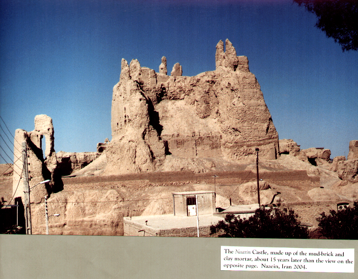 The clay, Naarin Castle of Naaein, Iran